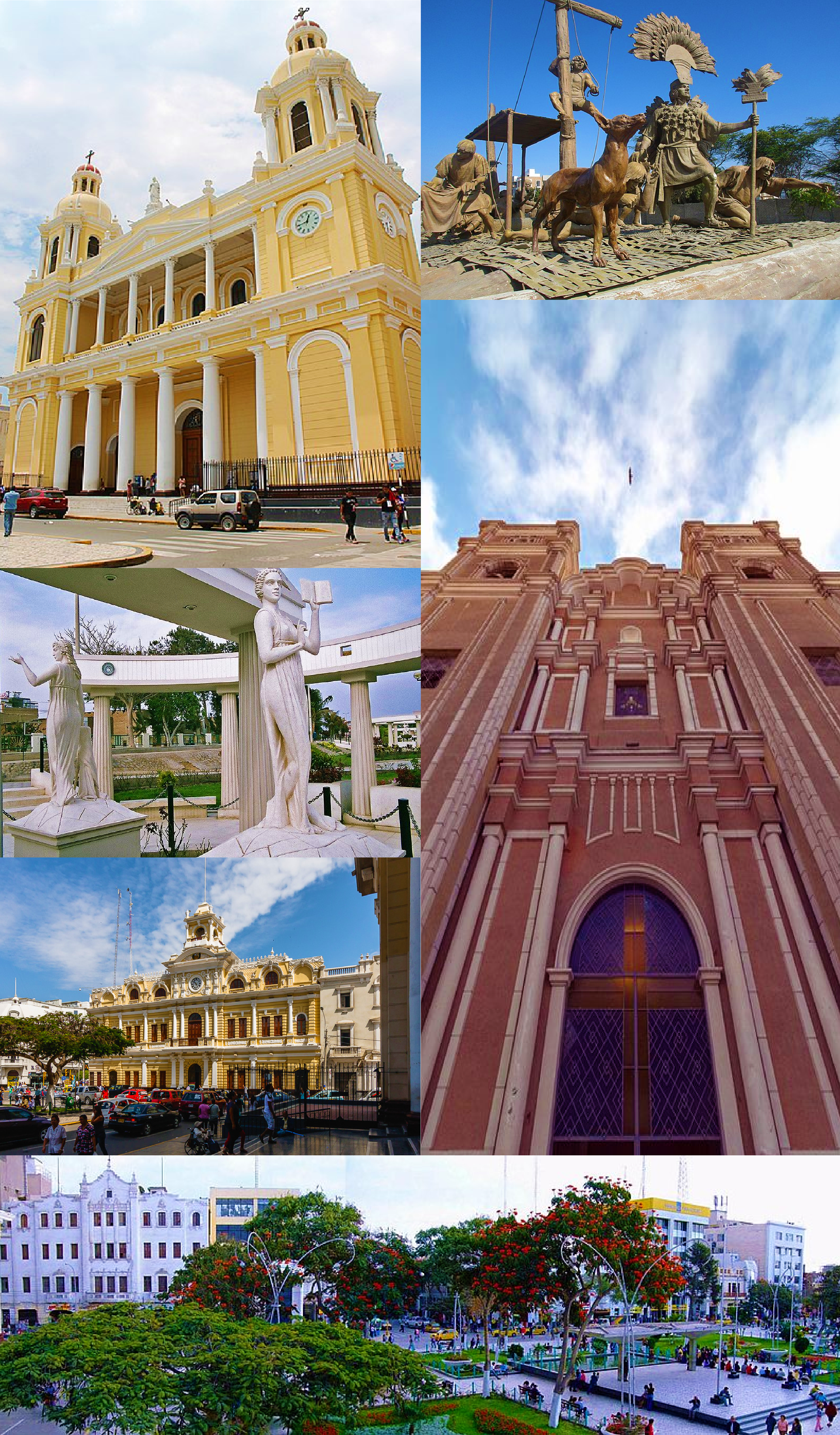 Photo montage of the city of Chiclayo, in the department of Lambayeque, north of the Republic of Peru.